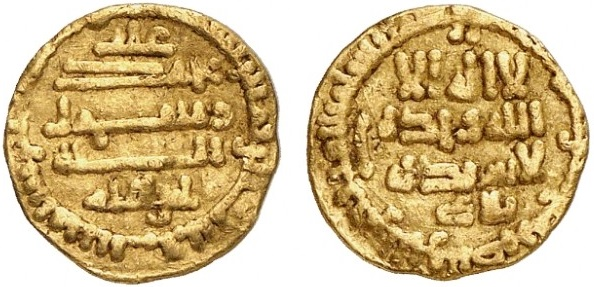 Aghlabid quarter dinar (ربع دينار), gold, minted (by Ballagh بلاغ, mint official صاحب السكة)in Sicily (prabably in Syracuse?) in 266 AH / 879 AD during the reign of the Aghlabid emir Ibrahim II (261-289 AH / 874-902 AD)